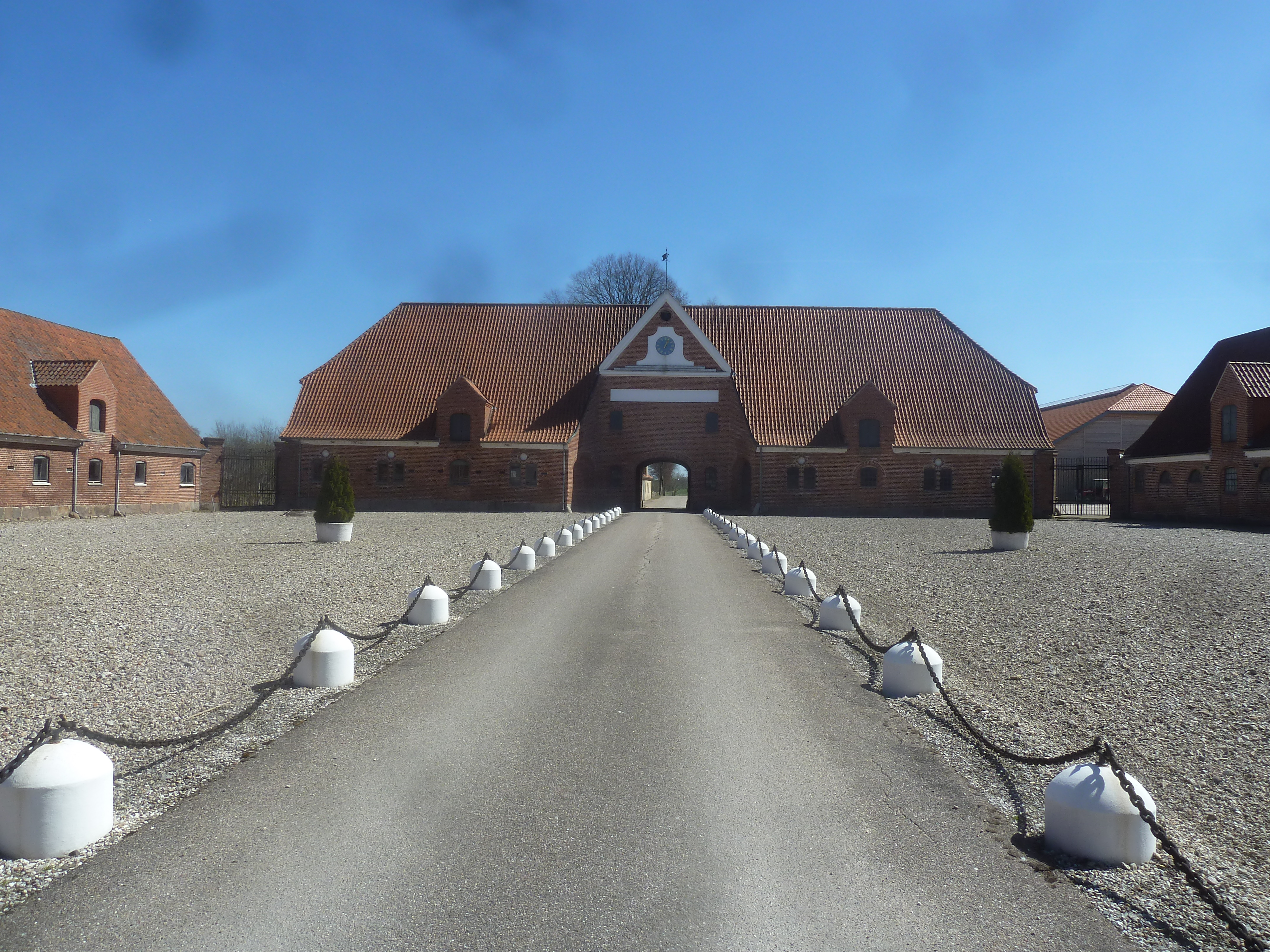 Avlsgården at Edelgave, Egedal Municipality, Denmark